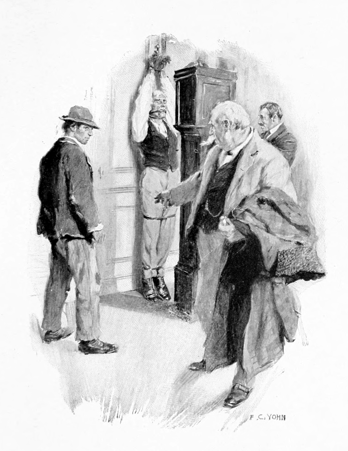 Illustrations from the book Raffles (Charles Scribner's sons, 1906), written by E. W. Hornung and illustrated by F. C. Yohn